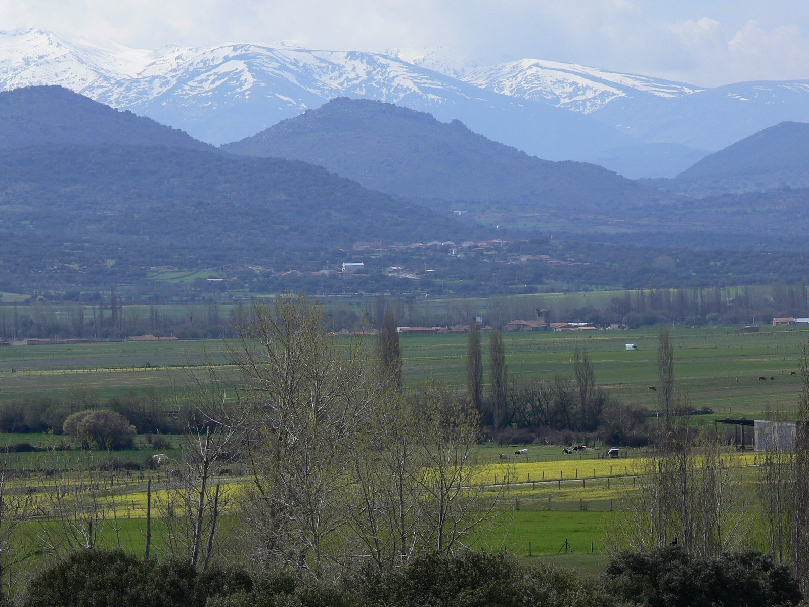 valle del corneja, valdecorneja